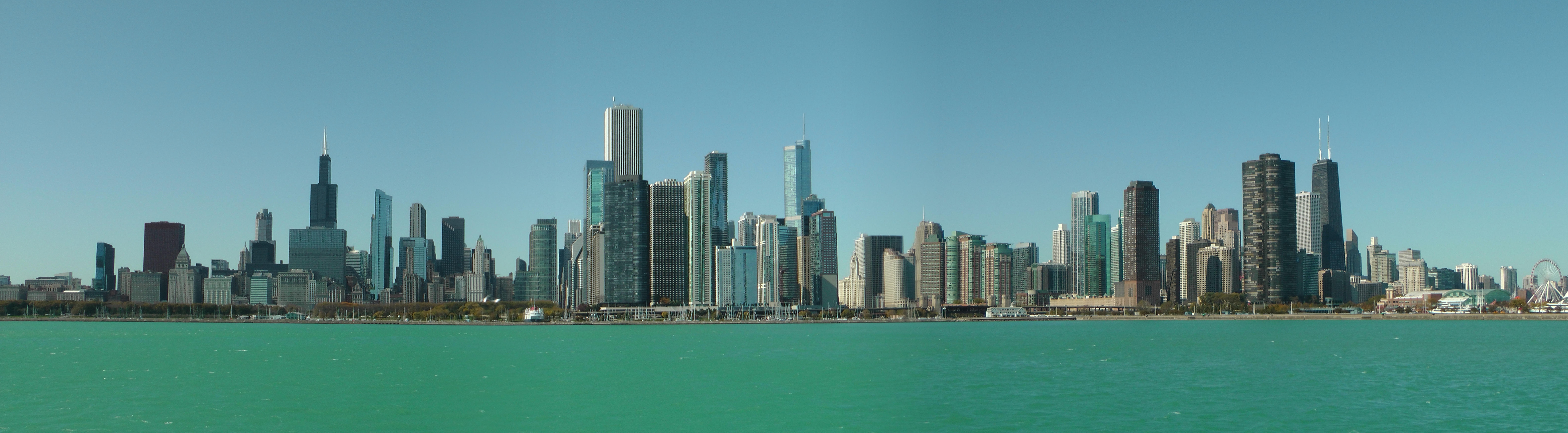 Chicago skyline as seen from sailing ship "Windy" at Oct 15, 2011